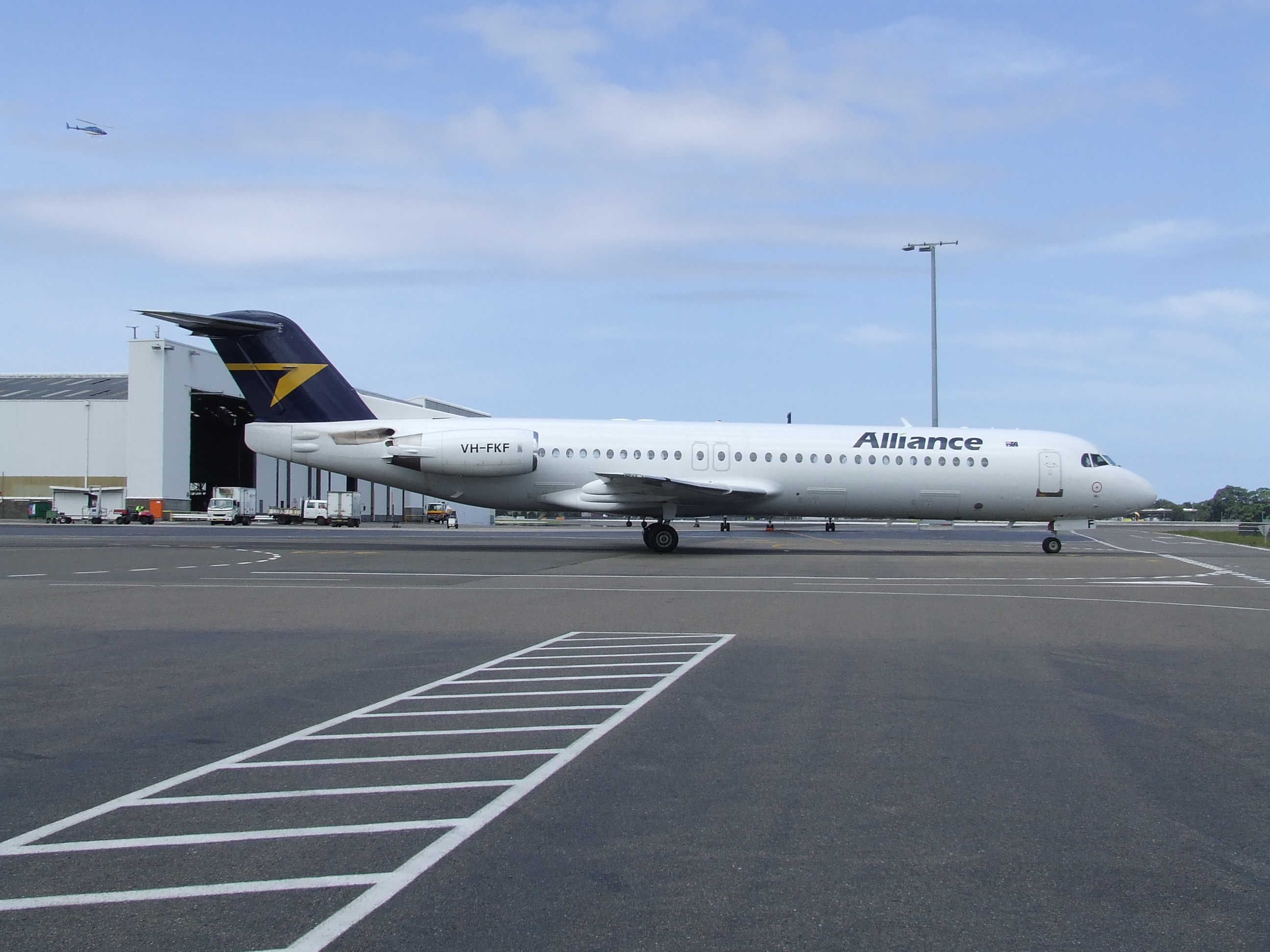 Alliance Airlines Fokker F28 Mk. 0100 Fokker 100 VH-FKF